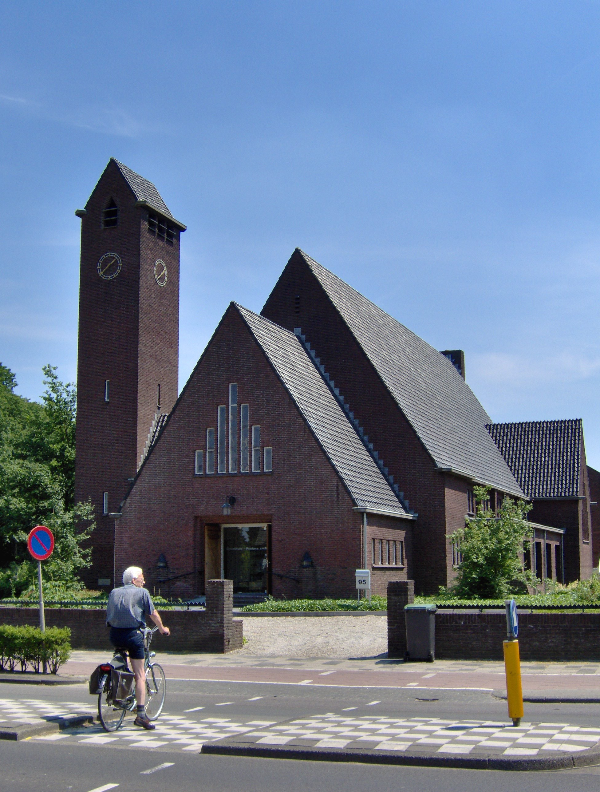 The Bethlehemkerk, a former Dutch Reformed church in Hengelo, Netherlands